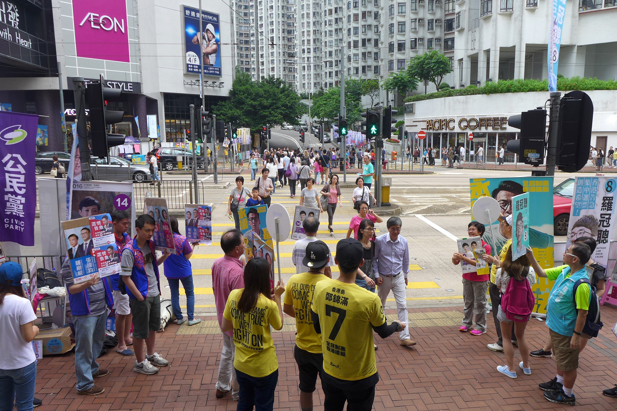 2016 Hong Kong legislative election HK Island Kornhill Promotion